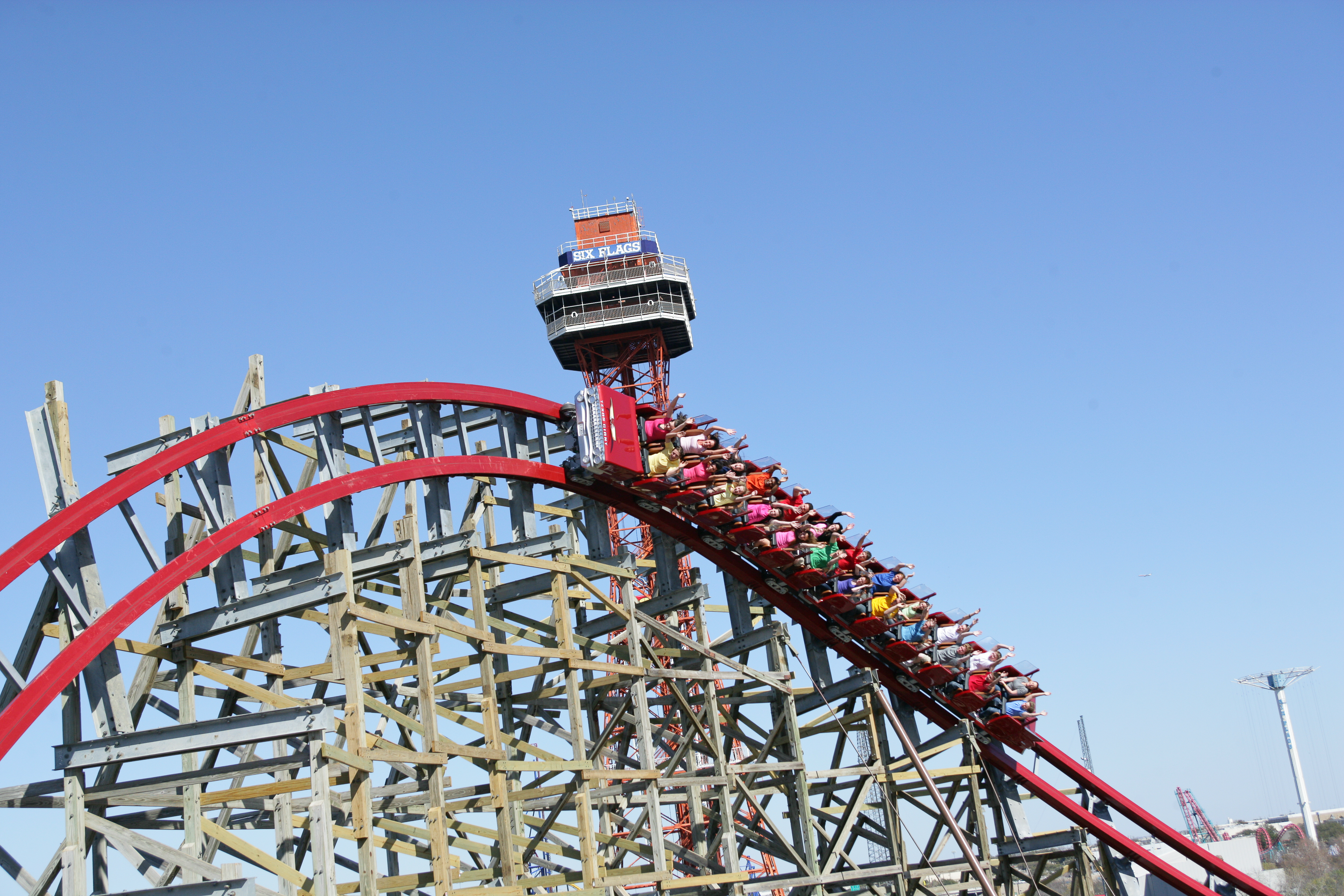 Image provided by Six Flags Over Texas Communications.